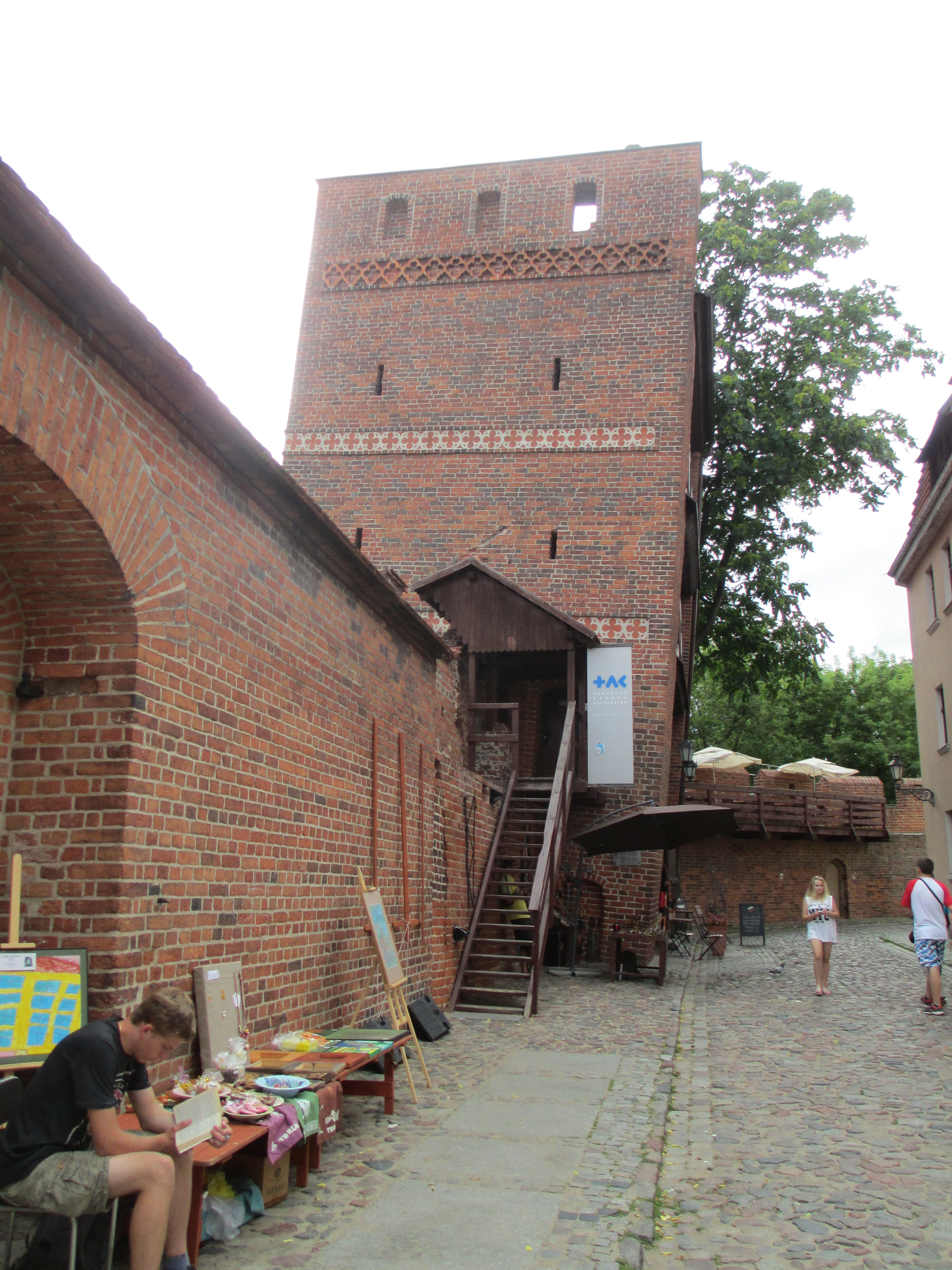 the leaning tower in torun wall